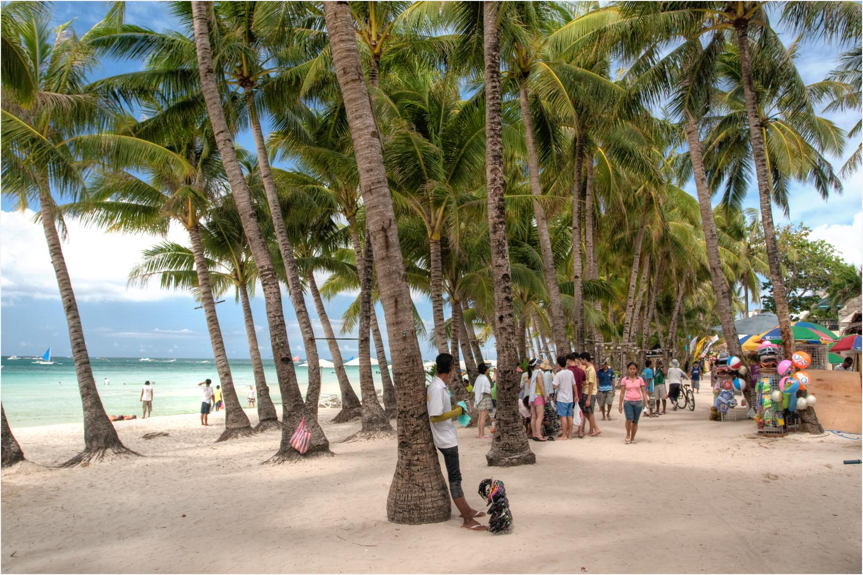 Boracay White Beach